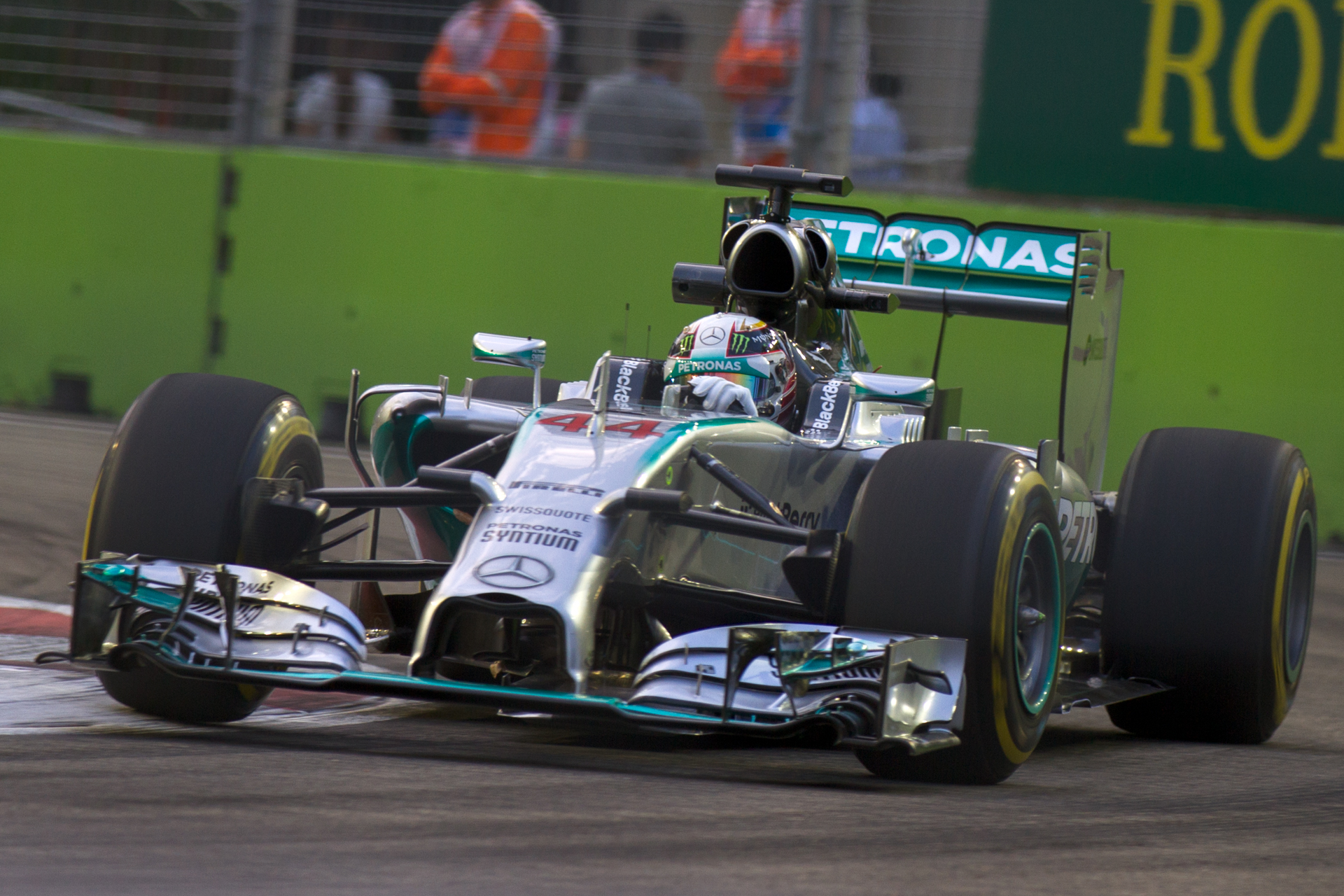 Formula One 2014 Rd.14 Singapore GP: Lewis Hamilton (Mercedes GP)